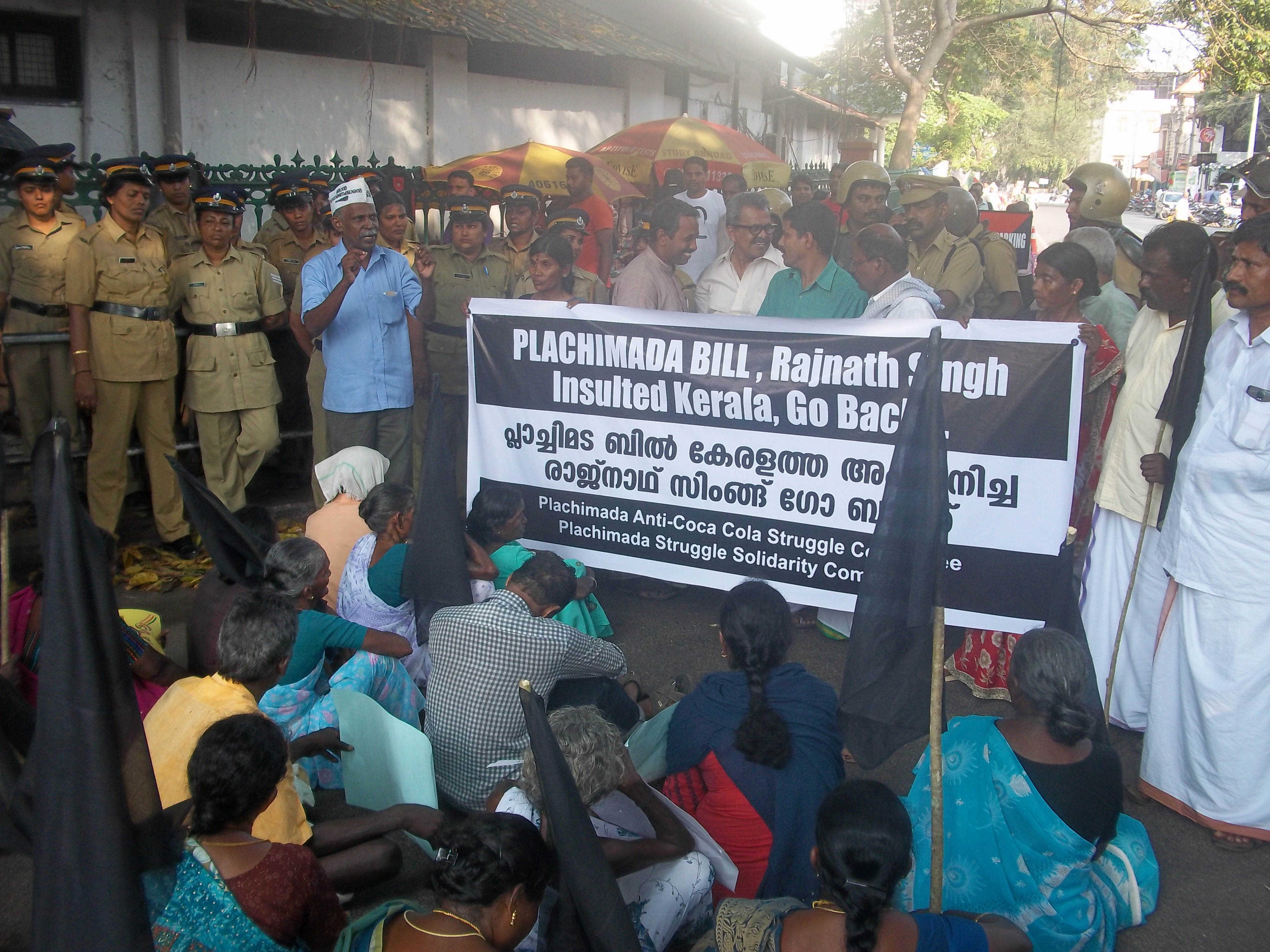 പ്ലാച്ചിമട നഷ്ടപരിഹാര ട്രിബ്യൂണൽ ബില്ലിന് രാഷ്ട്രപതിയുടെ അംഗീകാരം ലഭിക്കാത്തതിൽ പ്രതിഷേധിച്ച് പ്ലാച്ചിമട സമരസമിതിയുടെ ആഭിമുഖ്യത്തിൽ നടന്ന പ്രതിഷേധ മാർച്ച്.